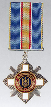 Ukrainian National Award - the order "For Bravery"